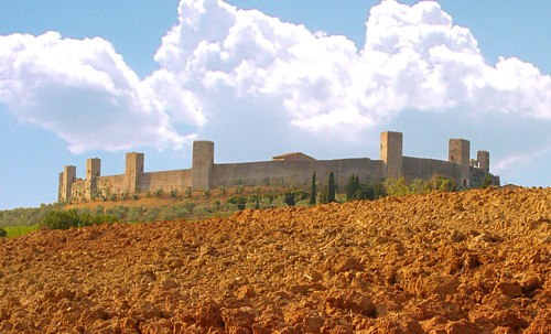 Monteriggioni on the hill Monte Ala Picture taken by user:Idéfix, july 2003